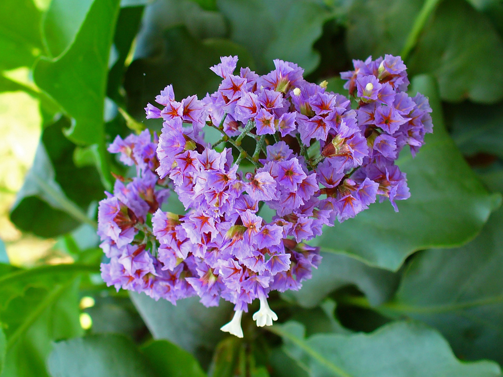 Limonium arborescens, Plumbaginaceae, Tree Limonium, Siempreviva, inflorescence; Botanic Garden Universiy Tübingen, Germany.